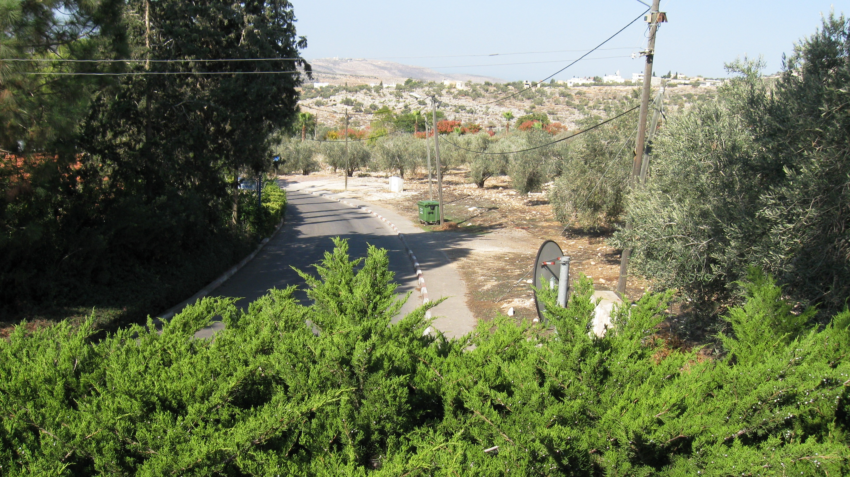 Olive trees, seen from Kedumim